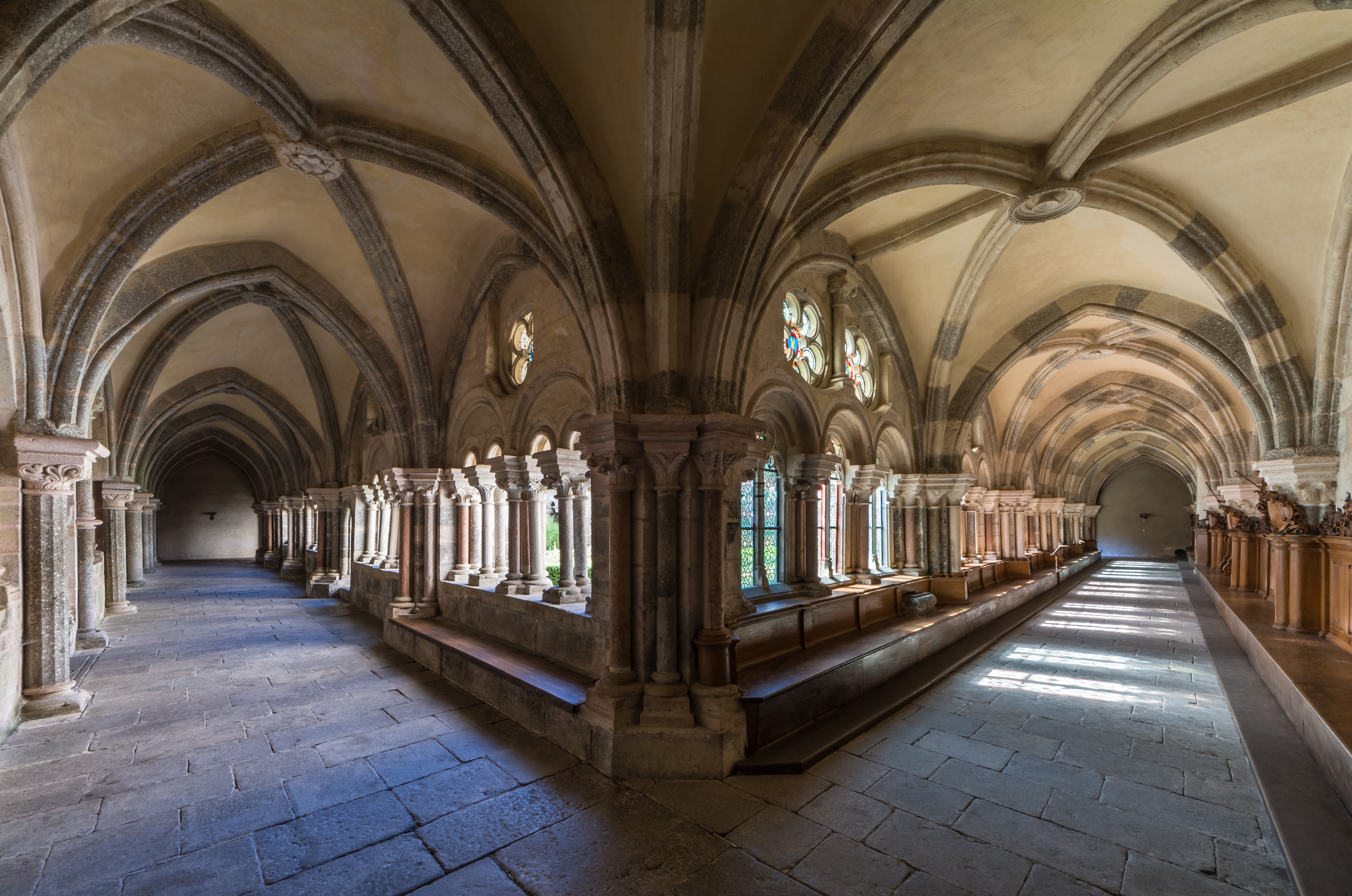 East and north wing of the cloister at Zwettl Abbey, Lower Austria